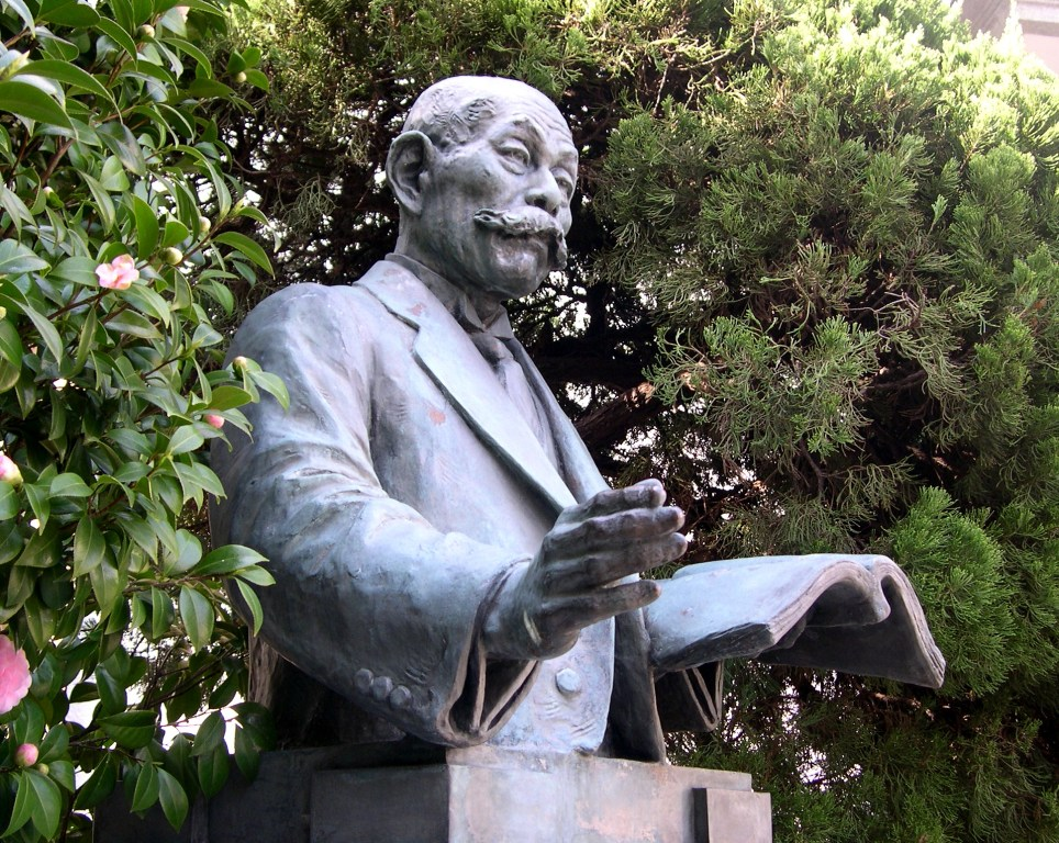 Statue of Tsubouchi Shoyo (1859-1935) at The Tsubouchi Memorial Theatre Museum, Waseda University, Shinjuku, Tokyo, Japan. ja: 坪内逍遥 の胸像。 場所：早稲田大学坪内博士記念演劇博物館（東京都新宿区）。